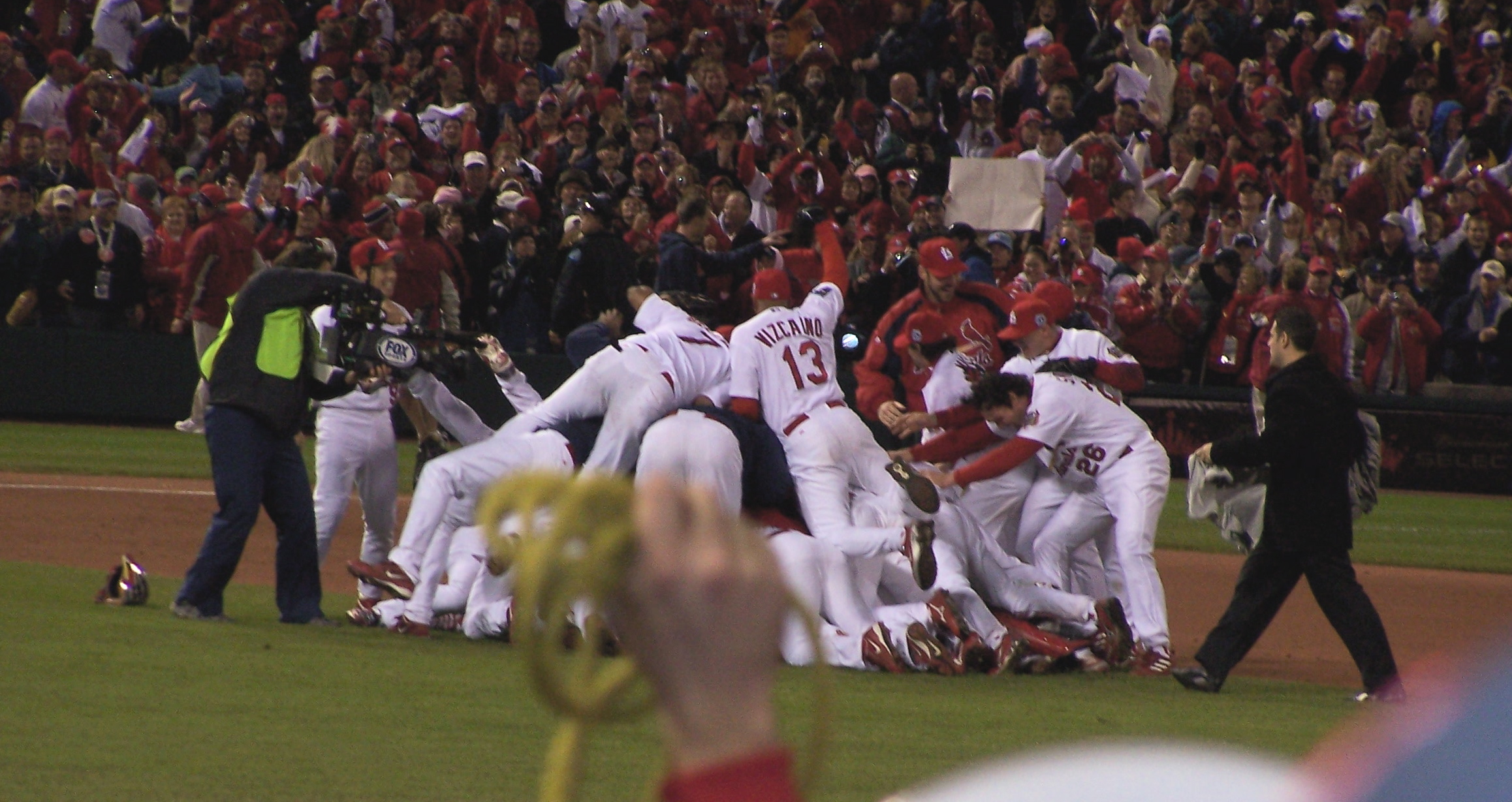 St. Louis Cardinals win the 2006 World Series.